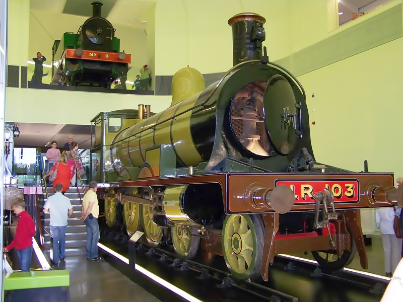 Highland Railway Jones Goods Class No 103 and Glasgow and South Western Railway No 9 at the Riverside Museum.